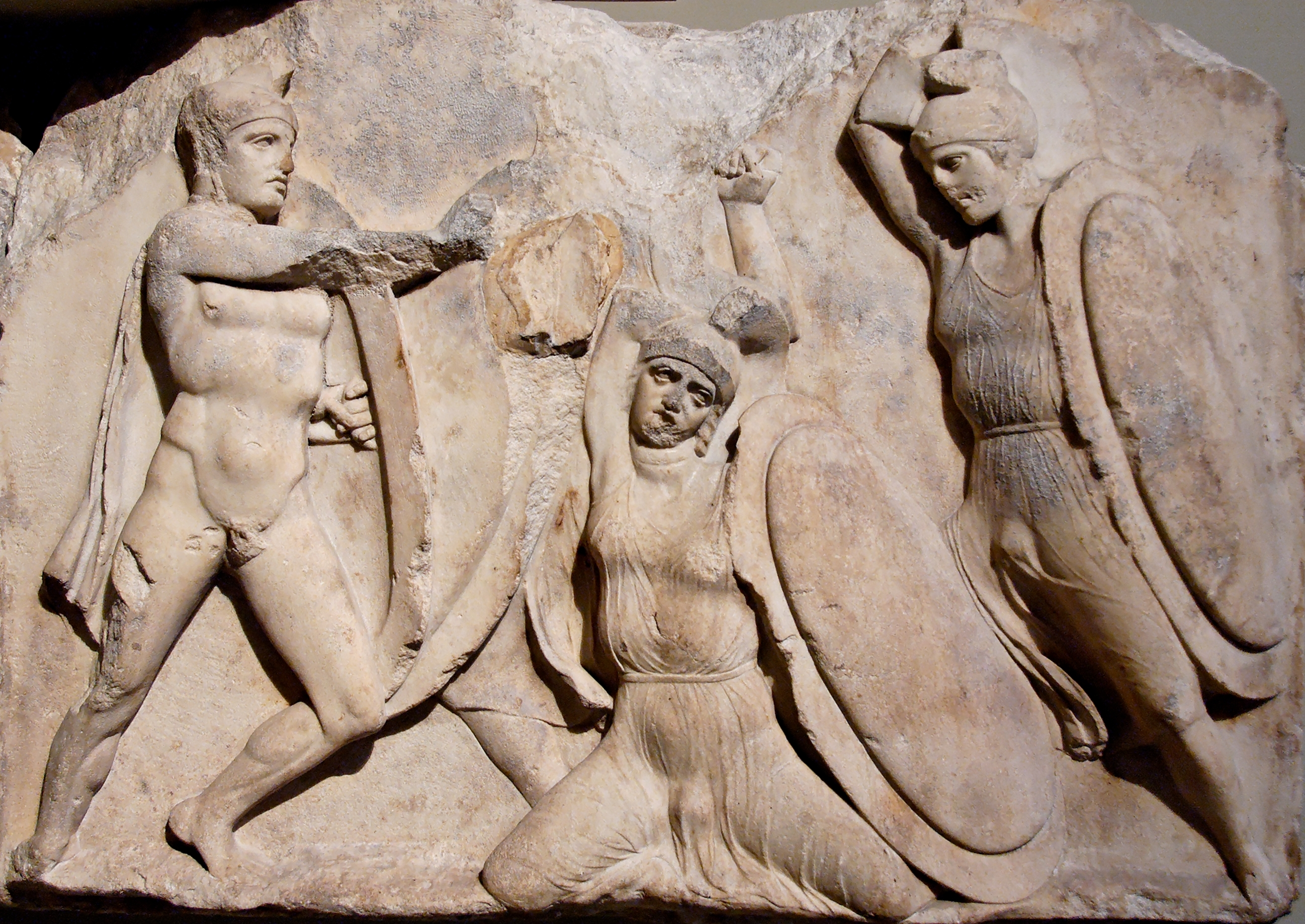 Warriors fighting. Fragment of the larger podium frieze from the Nereid Monument at Xanthos in Lycia, ca. 390–380 BC.